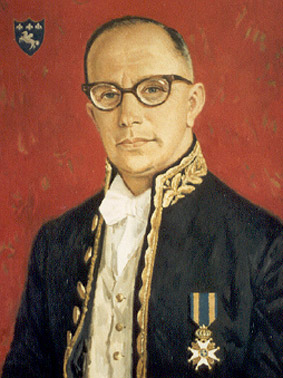 Mr. A.A.M. Struycken